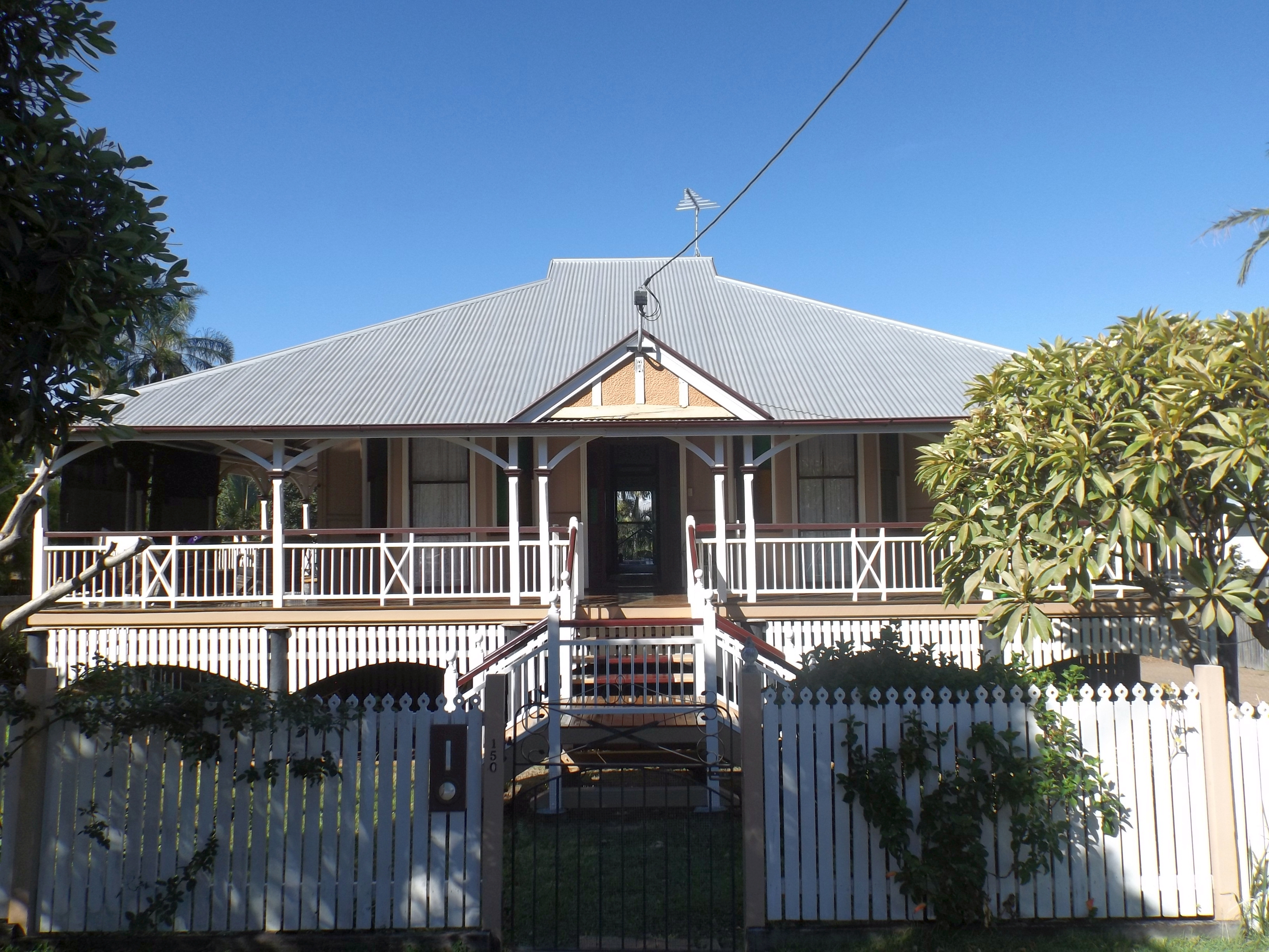 Photo of the entrance to Michael Gannon residence at Manly, Brisbane, Queensland, Australia.